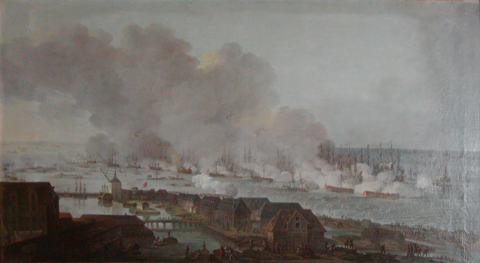 The battle of Copenhagen, by Christian August Lorentzen. The painting was ordered by the king (Crown Prince Frederick). It portrays the battle of Copenhagen 1801. The scenery is shown as seen from the tower of "Vor Frues Kirke" ("Our Lady of Copenhagen", the Copenhagen Cathedral). It is believed that the painting gives a relatively correct picture of the battle around 13:00 hours. The Fortress Trekroner [Three Crowns] is located in the upper left of the picture flying a flag, in front of Trekroner is the smaller fort "Lynetten". The flag ship Dannebrog can be identified as the burning ship in the center. Features still visible today: The Flag, Dannebrog, flying from the Sixtus battery: This is the "Flag of the Kingdom" (and flown here from 1788 to today). The mast crane of Christian IV (the white building to the center-left of the picture) and the fortification line around the naval base Holmen, including the Redan line. Both still exist.